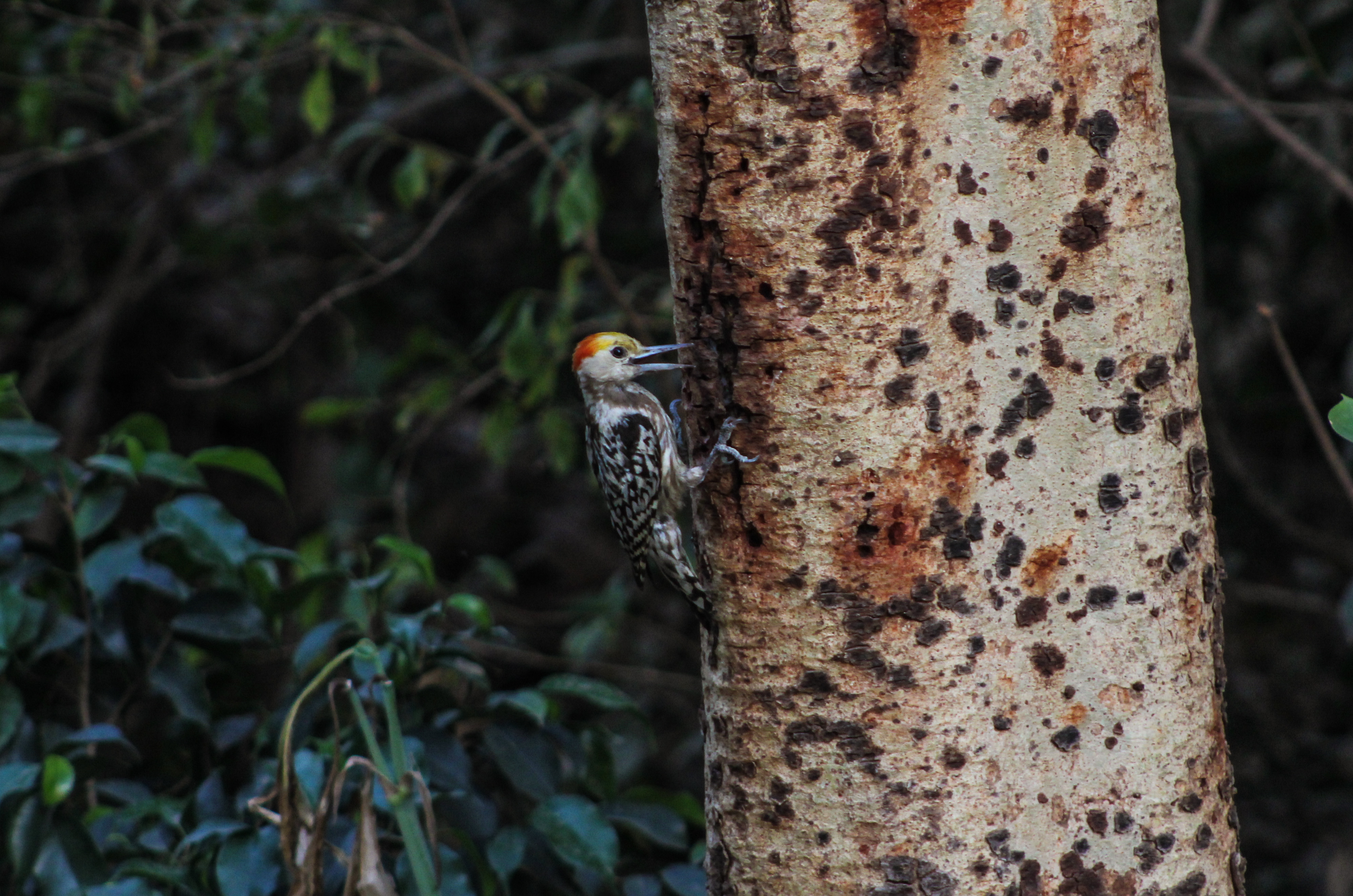 The Yellow Crowned Woodpecker (Leiopicus Mahrattensis) is also known as Mahratta woodpecker in a process of knocking the bark of the tree.